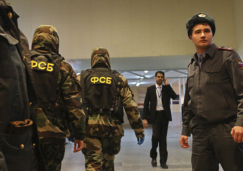 Nhan vien FSB